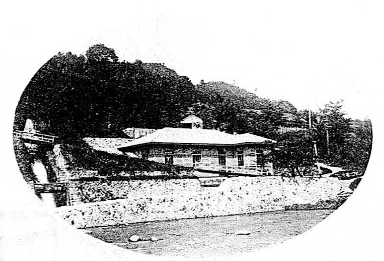 Machiya power station